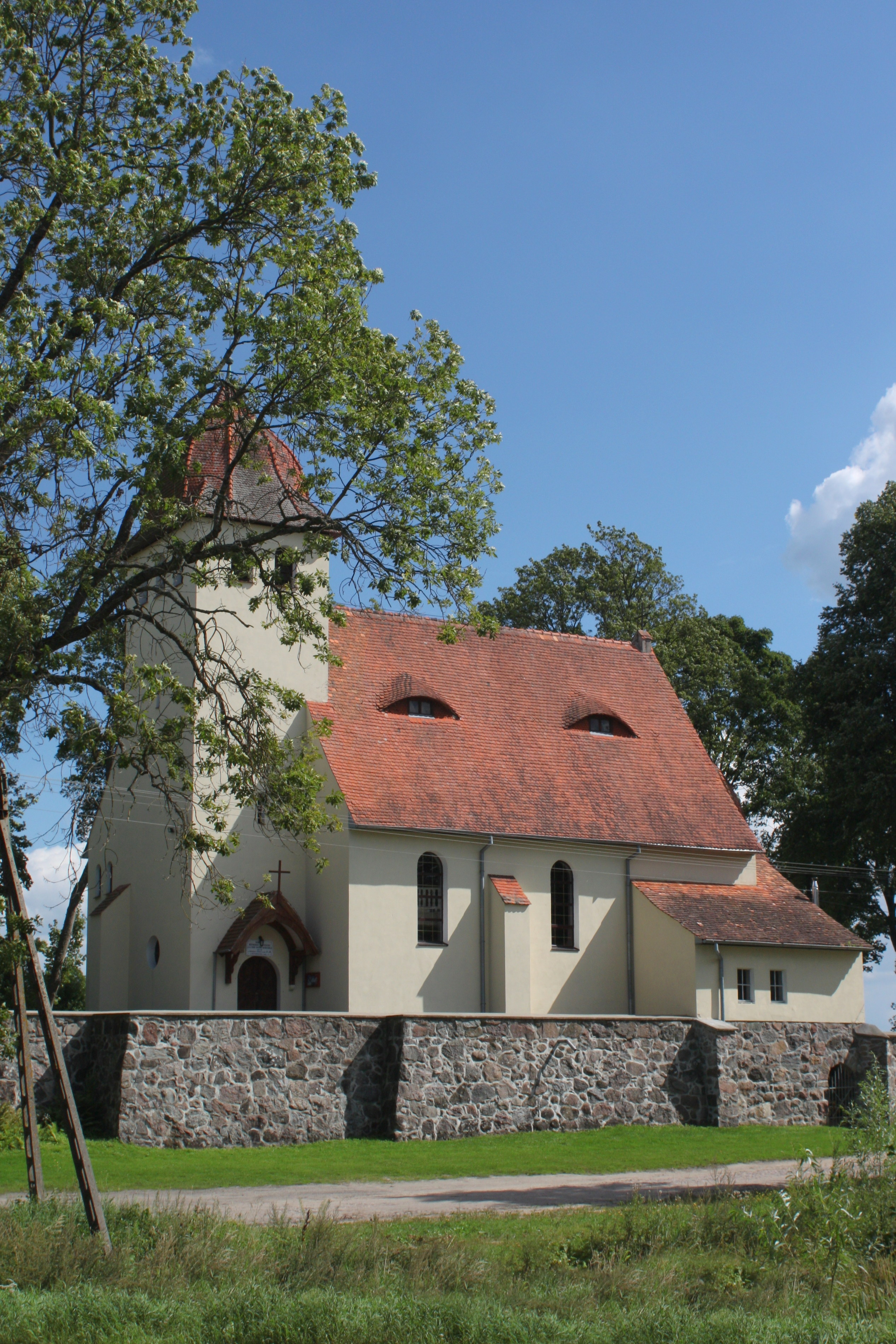 Mater Ecclesiae church in Baranowo.